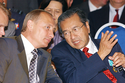 PUTRAJAYA. President Putin with Malaysian Prime Minister Mahathir Mohamad during the signing of Russian-Malaysian documents.